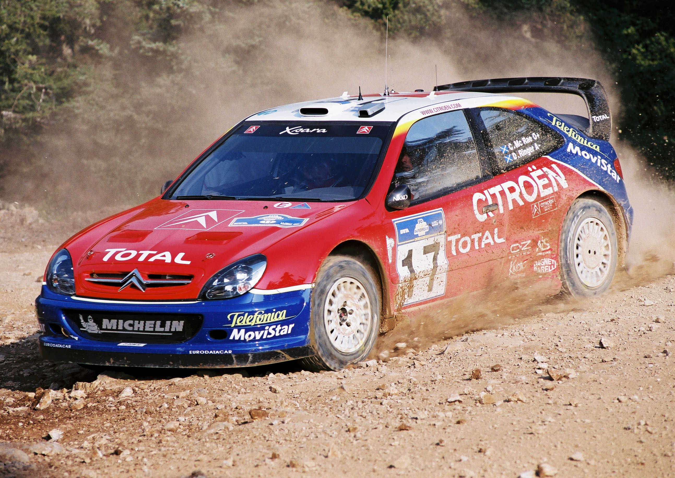 17 C. Mc Rae and D. Ringer in 2003 Acropolis Rally (S.S. ?)